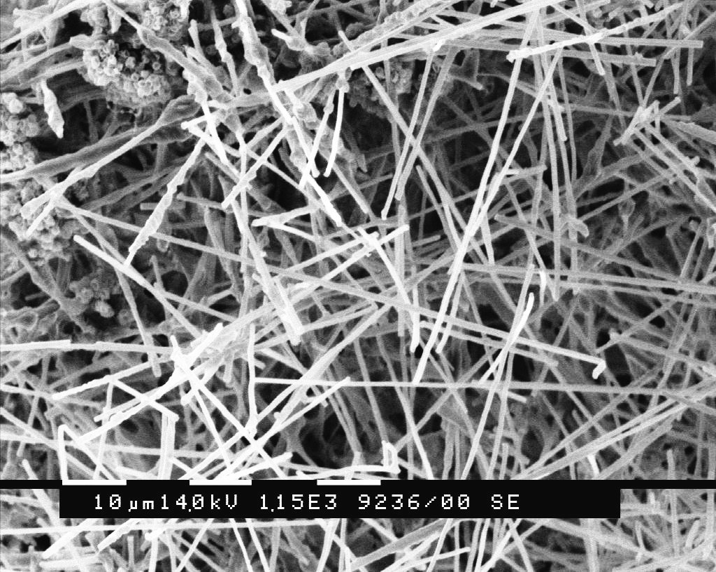 Scanning Electron Microscope (SEM) image of Moonmilk sample from Aladdin Cave - Jenolan, NSW, Australia. The photo is enlarged to 1150 X magnification and show fibrous calcite (Calcium Carbonate) strands approximately 0.83µm thick. (That is 0.00083 millimetres thick.)